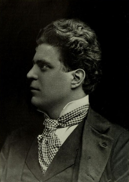 Picture of Pietro Mascagni